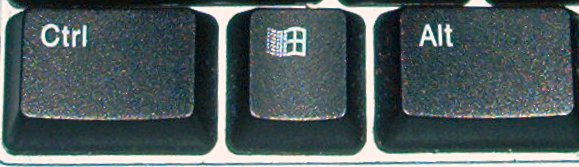 The Control, Windows, and Alt keys